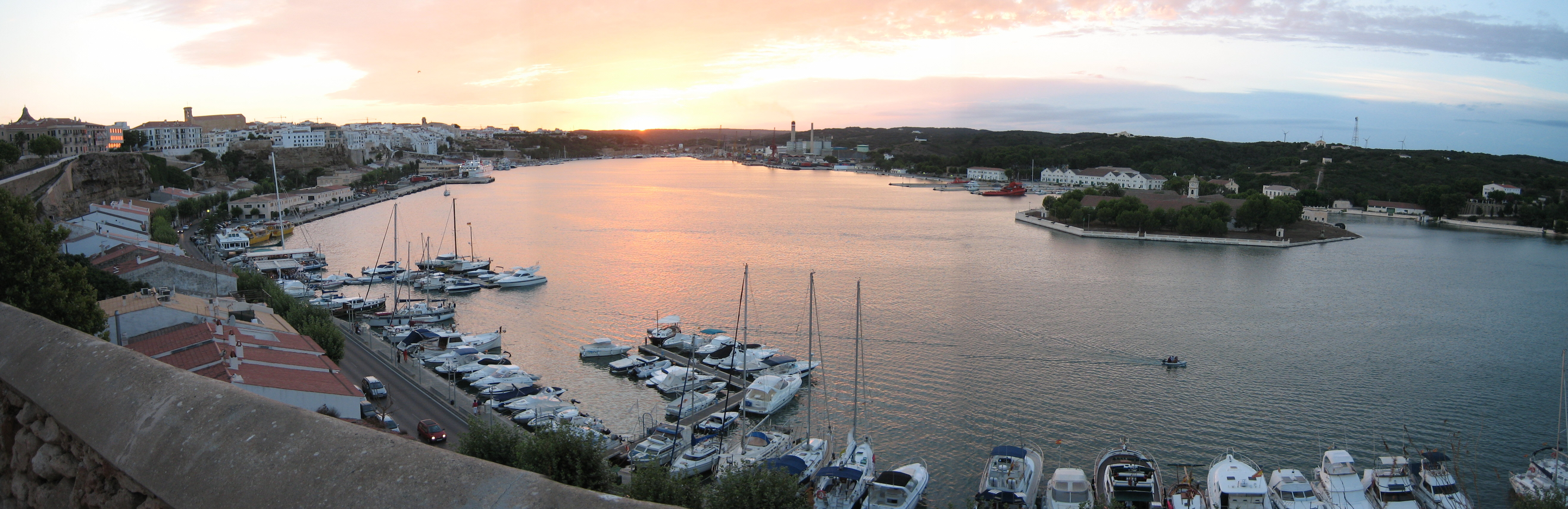 Maó harbour.